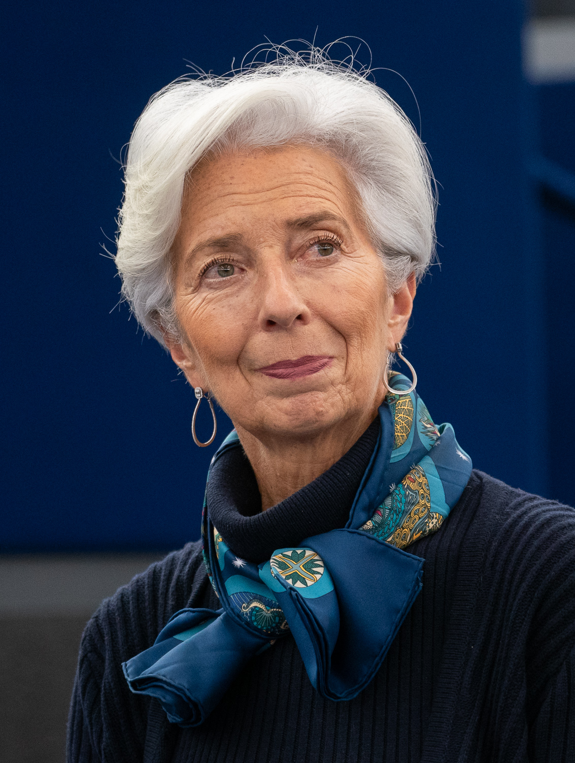 Read more: This photo is free to use under Creative Commons license CC-BY-4.0 and must be credited: "CC-BY-4.0: © European Union 2020 – Source: EP". No model release form if applicable. For bigger HR files please contact: webcom-flickr(AT)